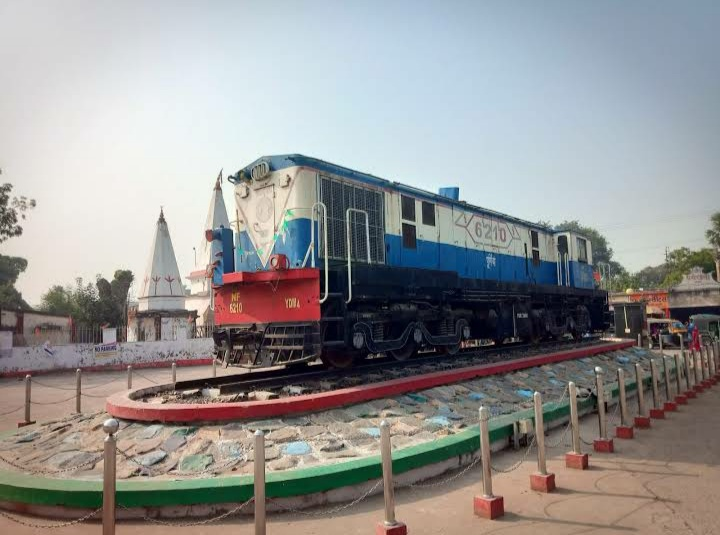 It's an old railway engine kept in purnia junction for showing purpose. Purnia is in state of Bihar, India.